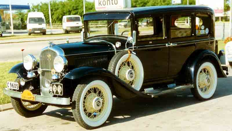 Plymouth Model PA 4-Door De Luxe Sedan 1931